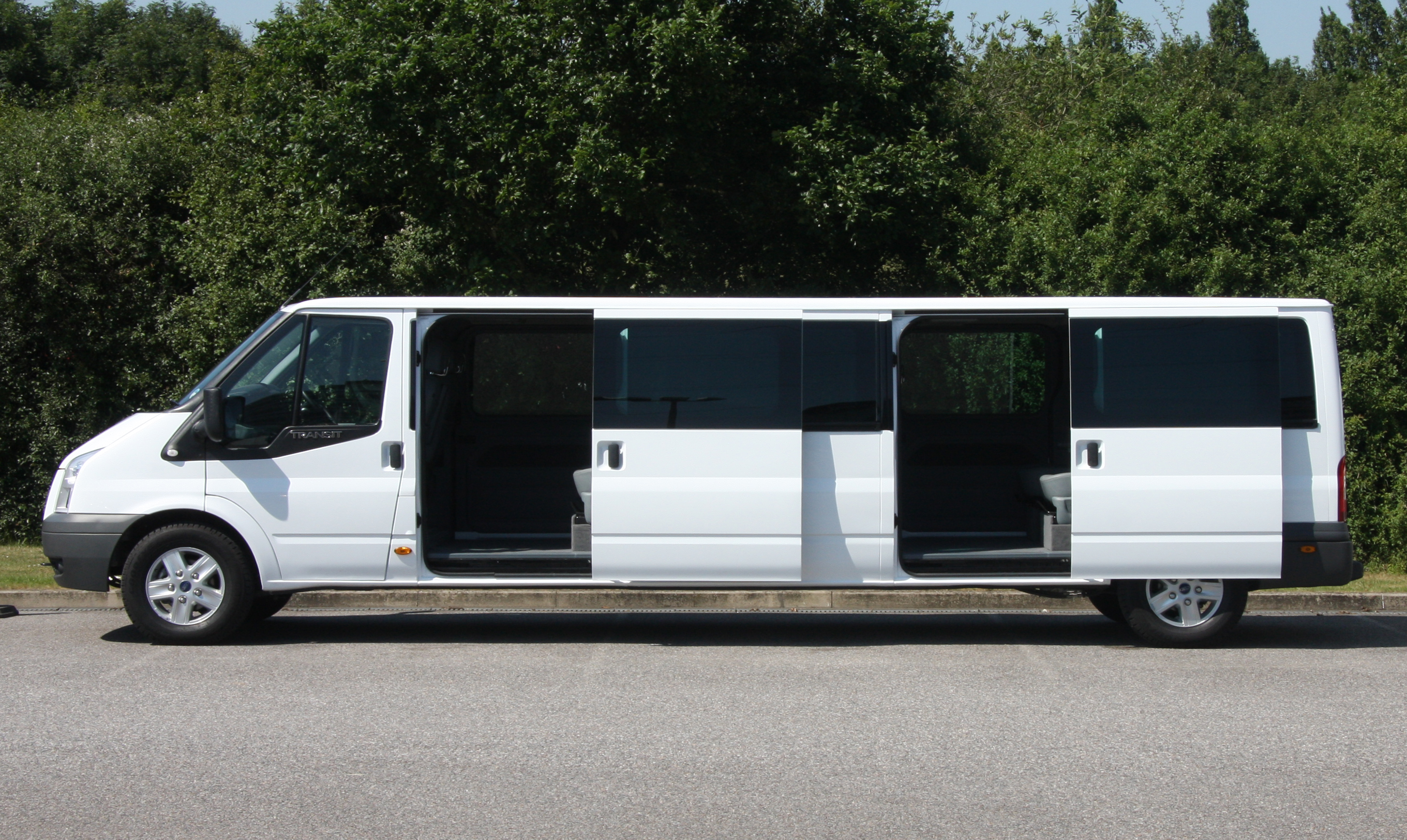 Probably the longest Transit in the world.